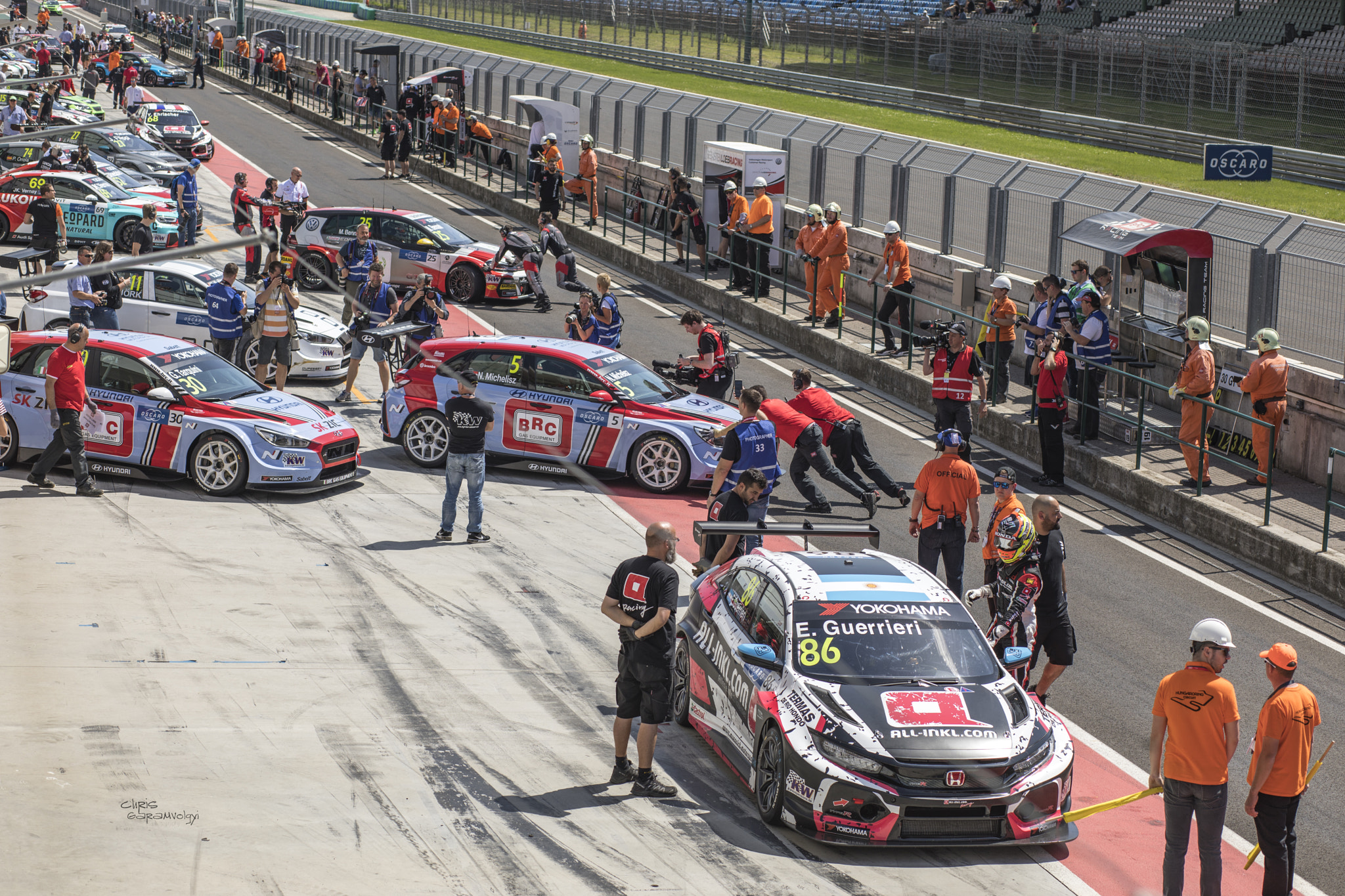 500px provided description: FIA World Touring Car Cup 2018 Circuit Racing Hungaroring [#cup ,#city ,#people ,#street ,#car ,#man ,#500px ,#sport ,#peace ,#picture ,#world ,#photography ,#touring ,#job ,#color image ,#fia ,#follow ,#photooftheday ,#chrisgaramvolgyi]